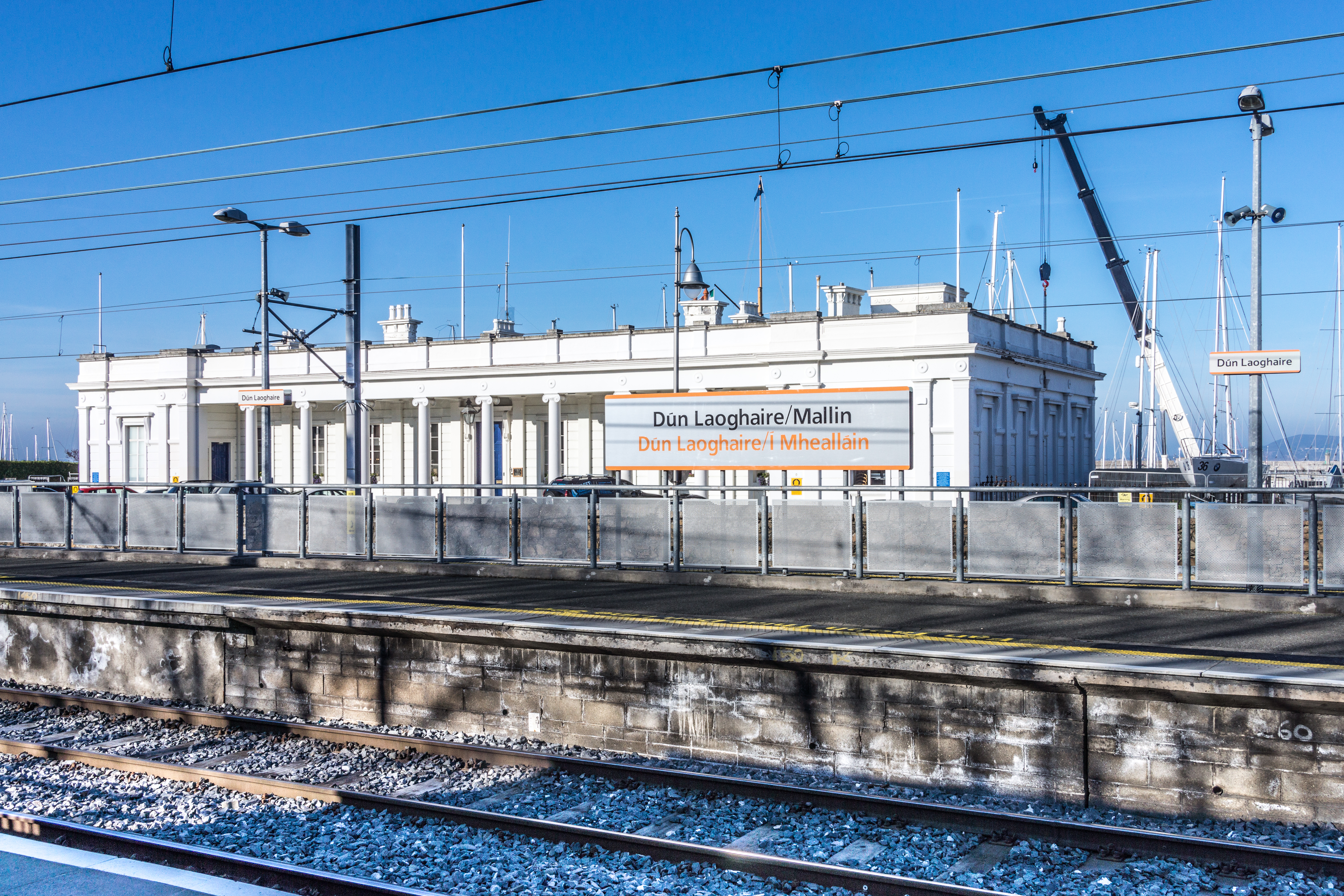 I have used this station on a regular basis for about forty years and was totally unaware (until a few years ago when news signs were installed) that its official name was Mallin Station. Apparently it has been named Mallin Station since 1966, after Michael Mallin. Unusually, the station building is on a bridge above the platforms, in a setup similar to Leixlip Louisa Bridge railway station.